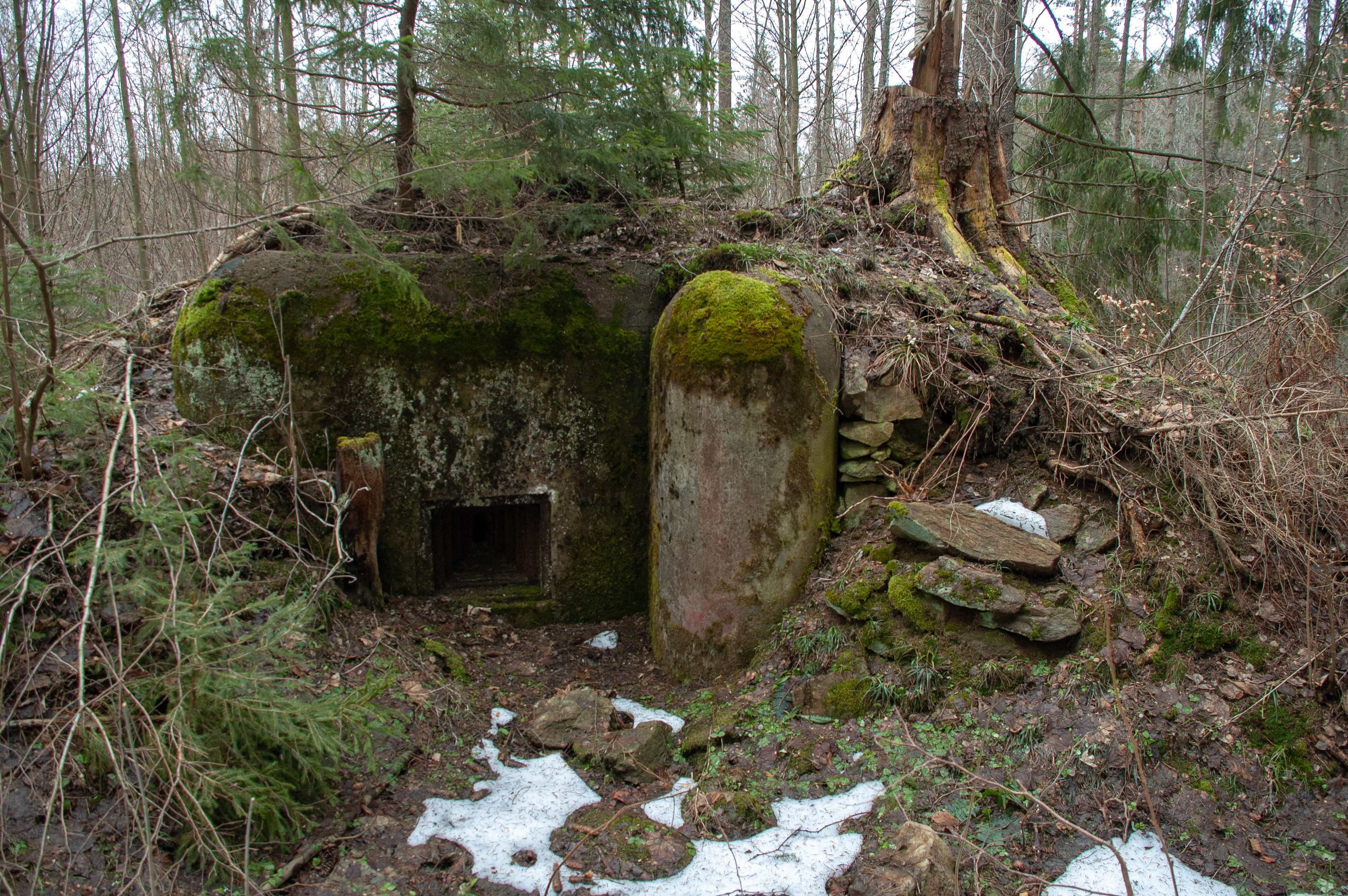 This image was created as a part of Editaton Prachatice (Czech).